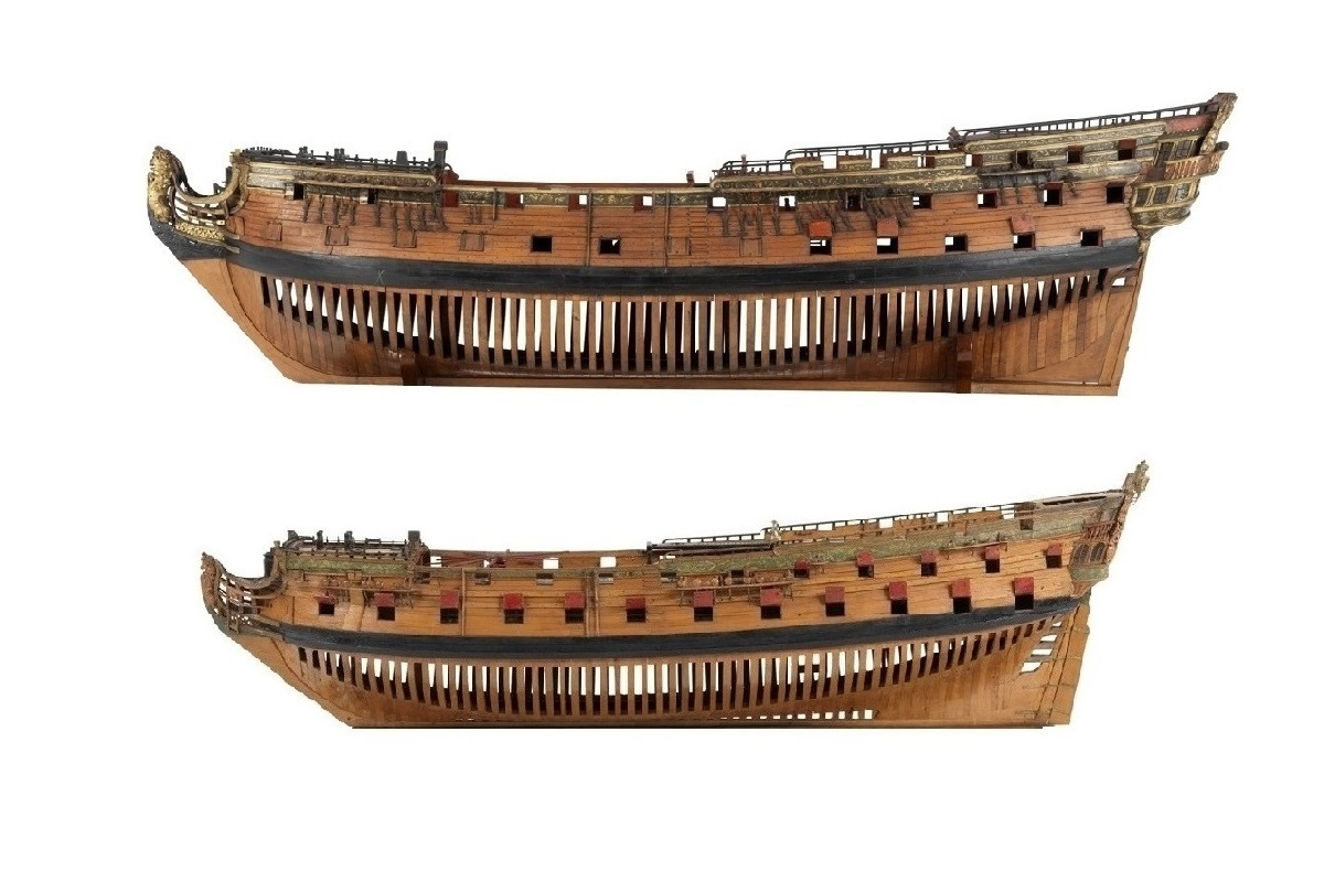 Contemporary model of a British 70-gun 3rd rate ship of the line from 1725 counterposed to a 50-gun 4th rate ship of the line from 1715, to scale.